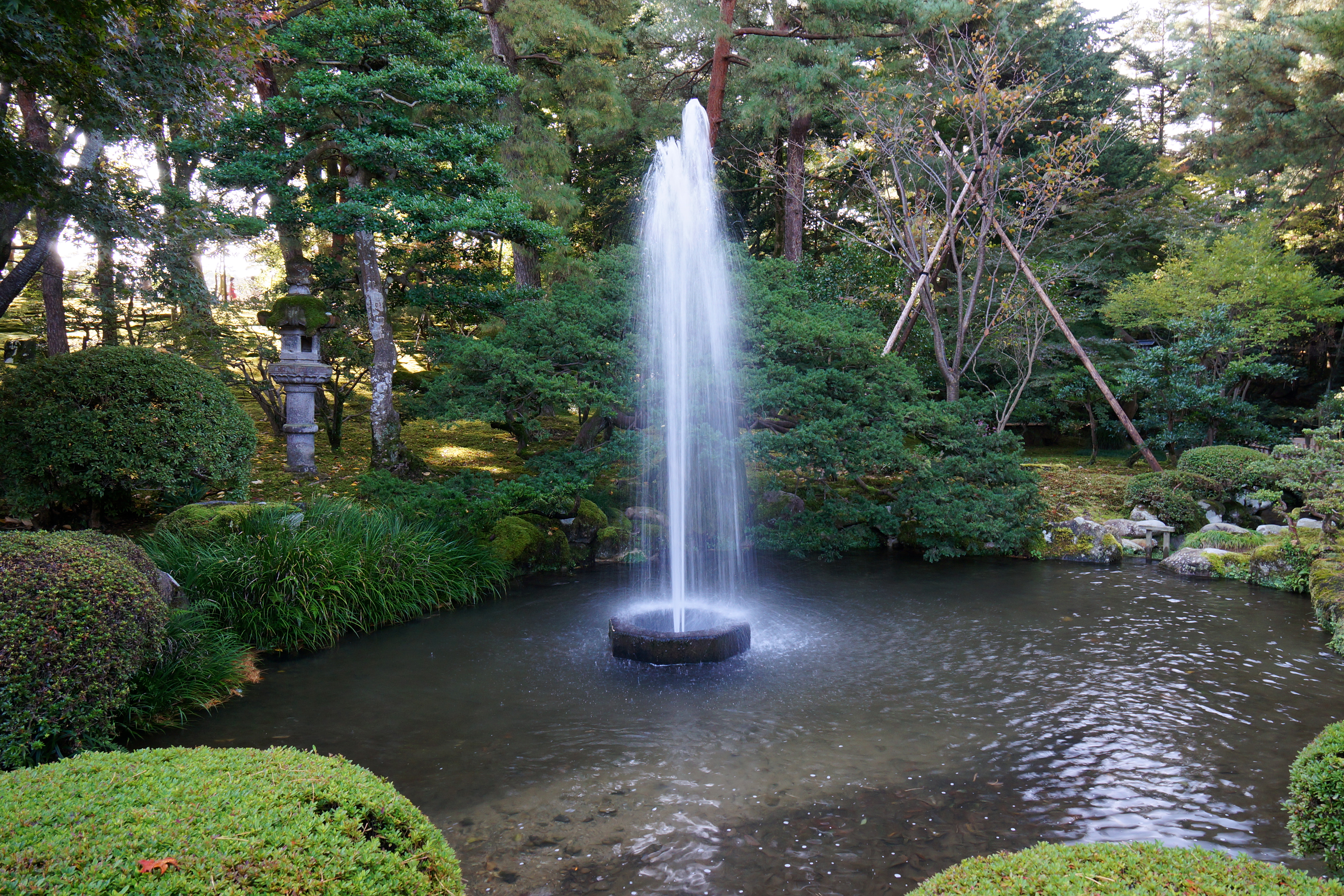 At Kenroku-en in Kanazawa, Ishikawa prefecture, Japan.